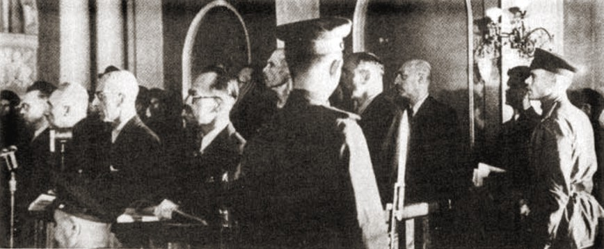 The show trial of 16 leaders of Polish wartime underground movement (including Home Army and civil authorities) convicted of "drawing up plans for military action against the U.S.S.R.", Moscow, June 1945. They had been invited to help organize the new "Polish Government of National Unity" in March 1945 and captured by NKWD. Despite the court's conspicuous leniency, only two were still alive six years later.